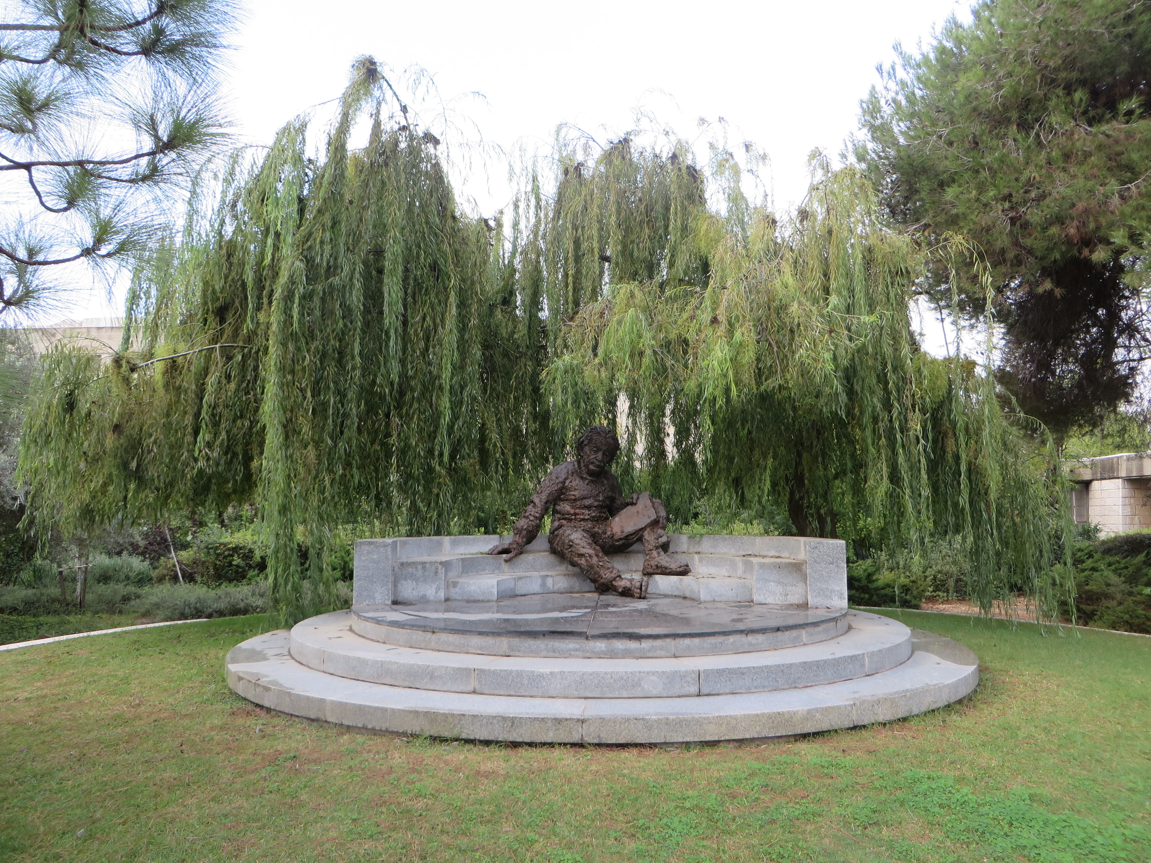 Albert Einstein sculpture, in the gardens of the Israel Academy of Sciences and Humanities, Jerusalem, Israel.